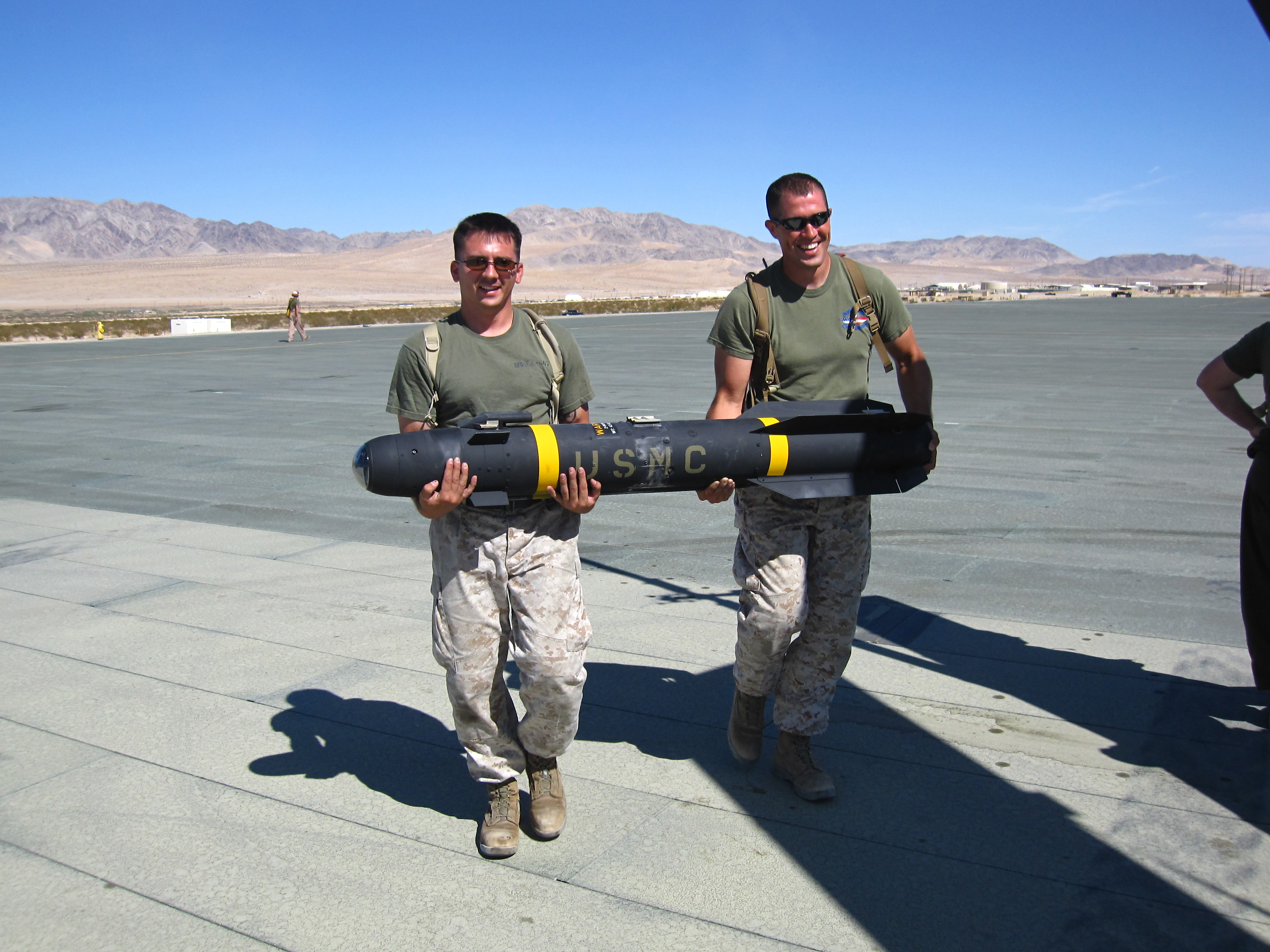 Marines carry a hellfire missile